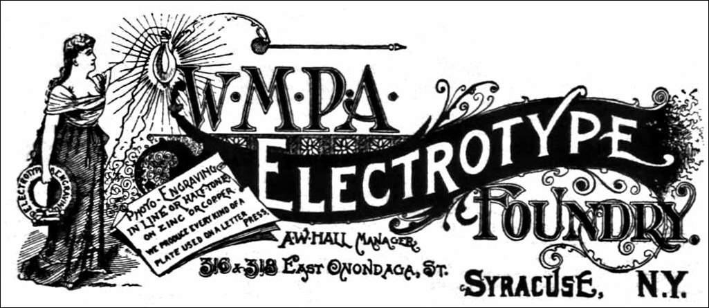 WMPA Electrotype Foundry - Syracuse, New York - 1894